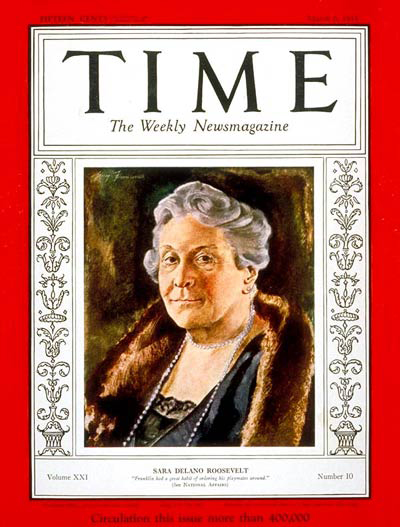 Time magazine, Volume 21 Issue 10. Front cover is an illustration of Sara Delano Roosevelt.